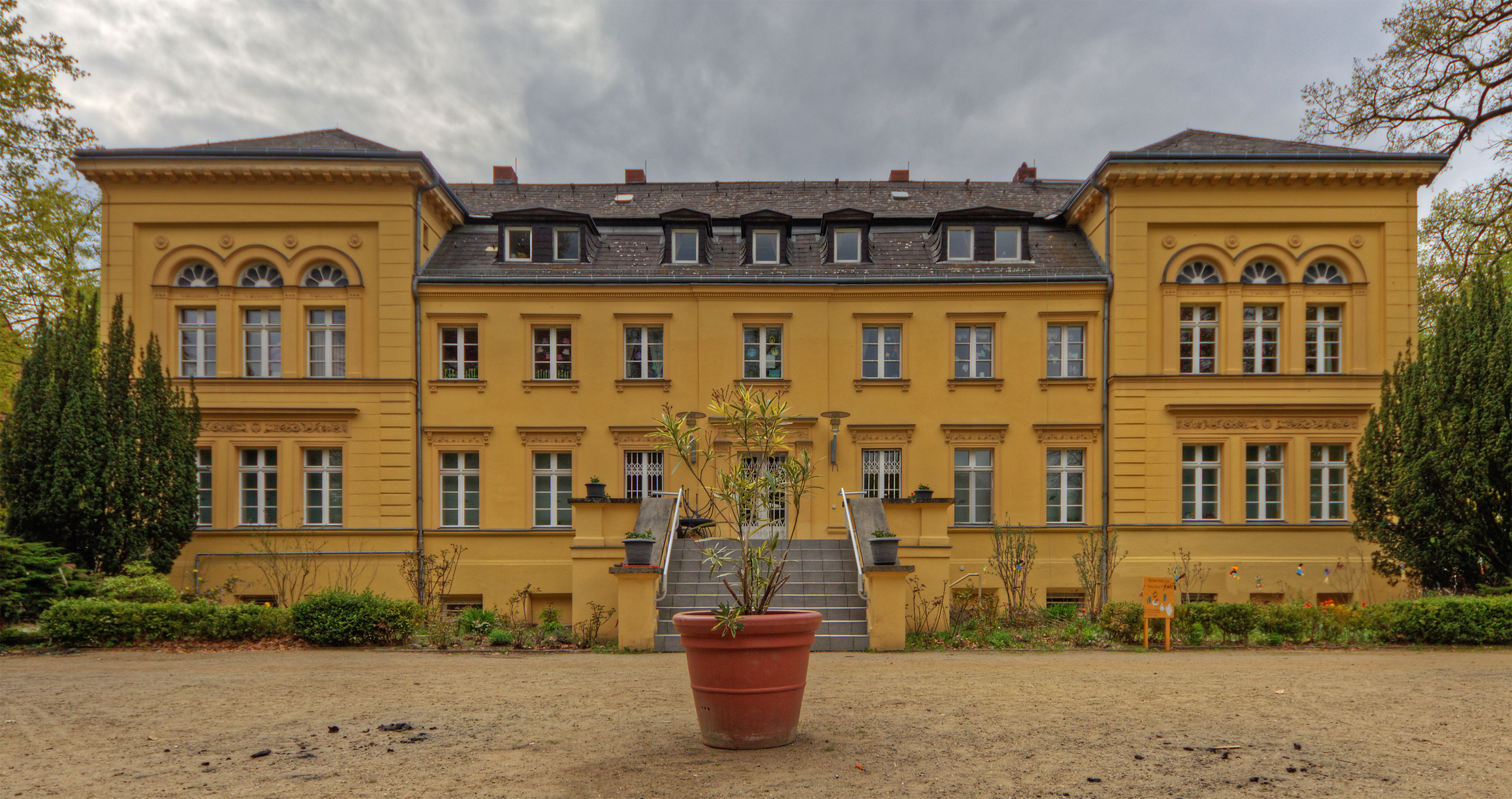 Neoclassical manor, Berlin-Lichterfelde, Germany.